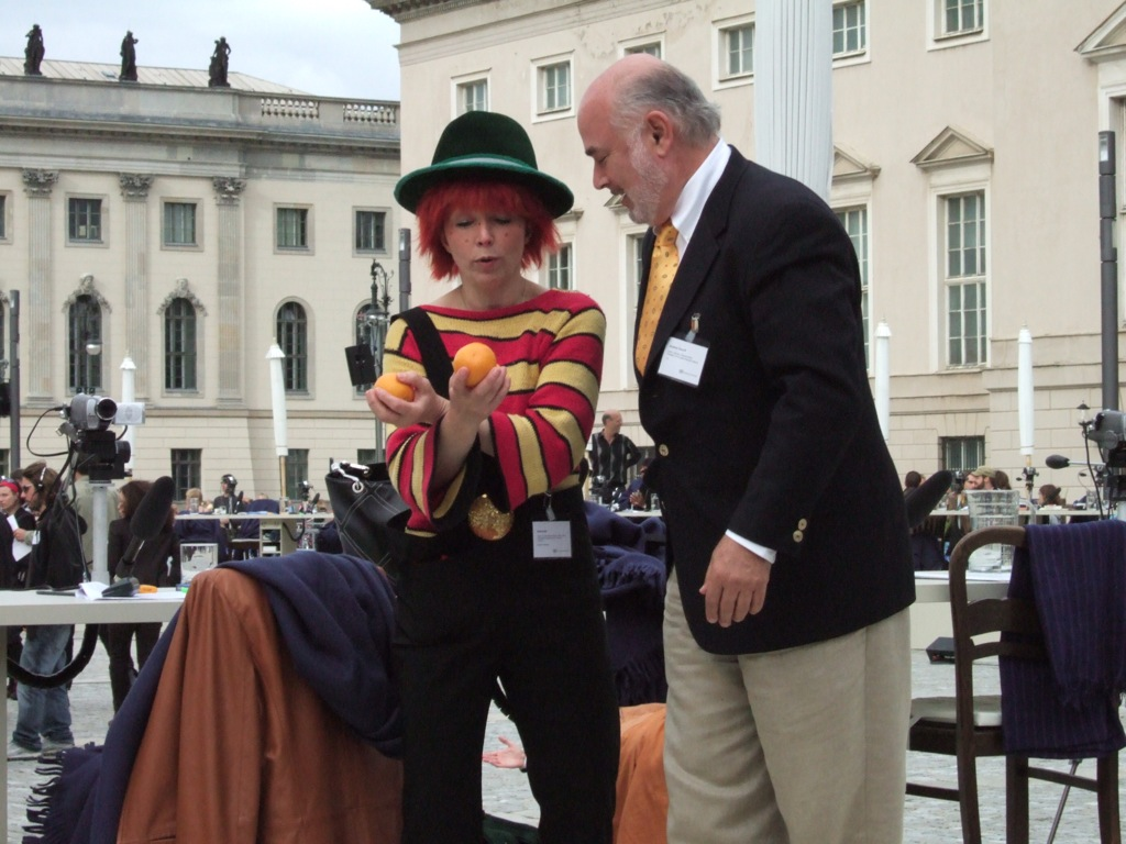 Antoschka explains how to juggle. Dropping Knowledge, Bebelplatz Berlin.